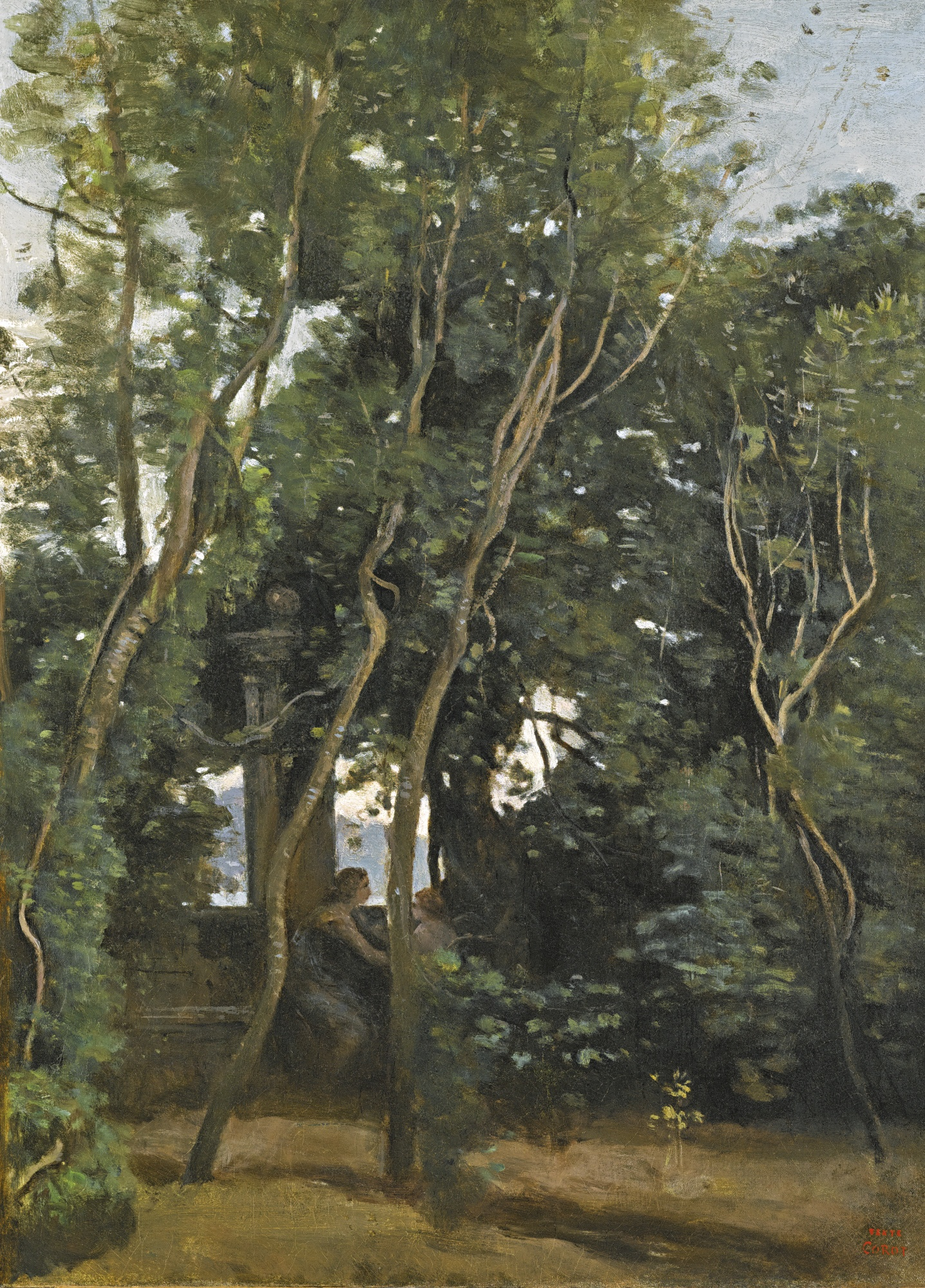 LE MATIN SOUS LES ARBRES